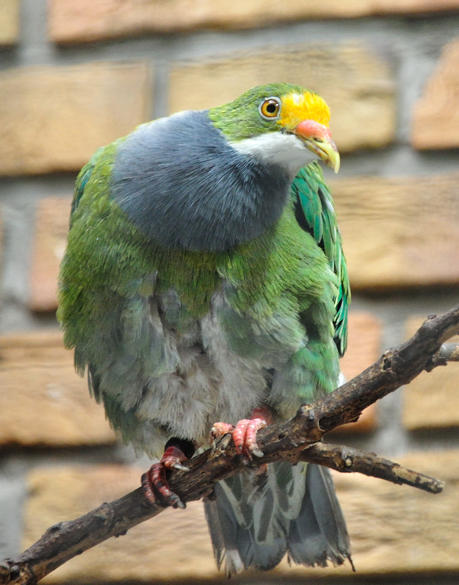 An Orange-fronted Fruit-dove in Berlin Zoo, Germany. Grey plumage on its abdomen probably indicates that it is a sub-adult.